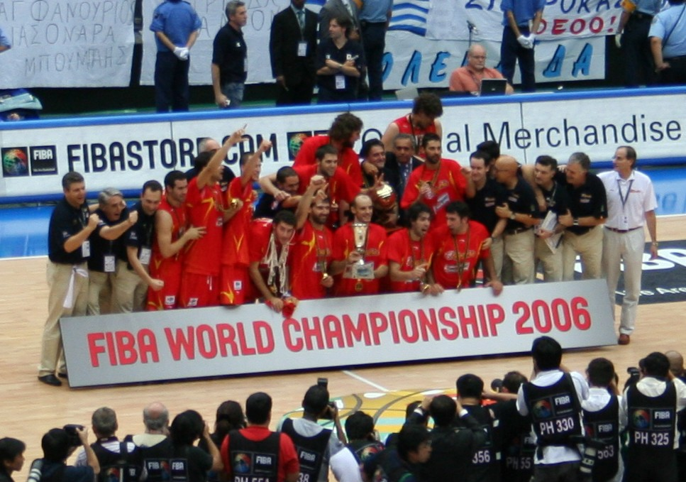 Basketball World Cup 2006 in Japan. After the final match: The winning team from Spain